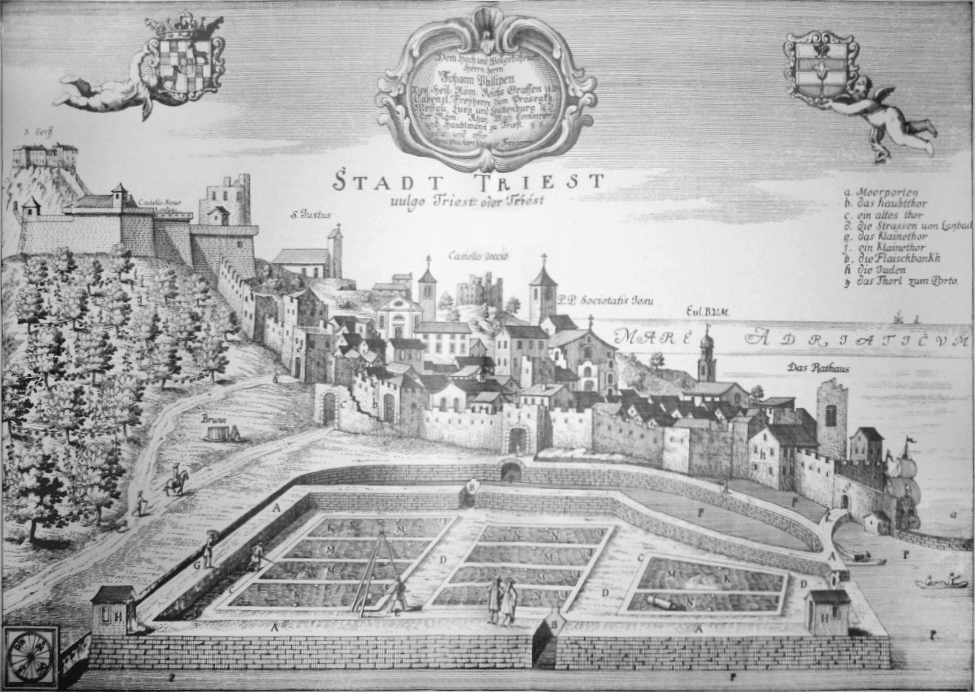 Engraving of Trieste (Italy), Technique: Copper engraving